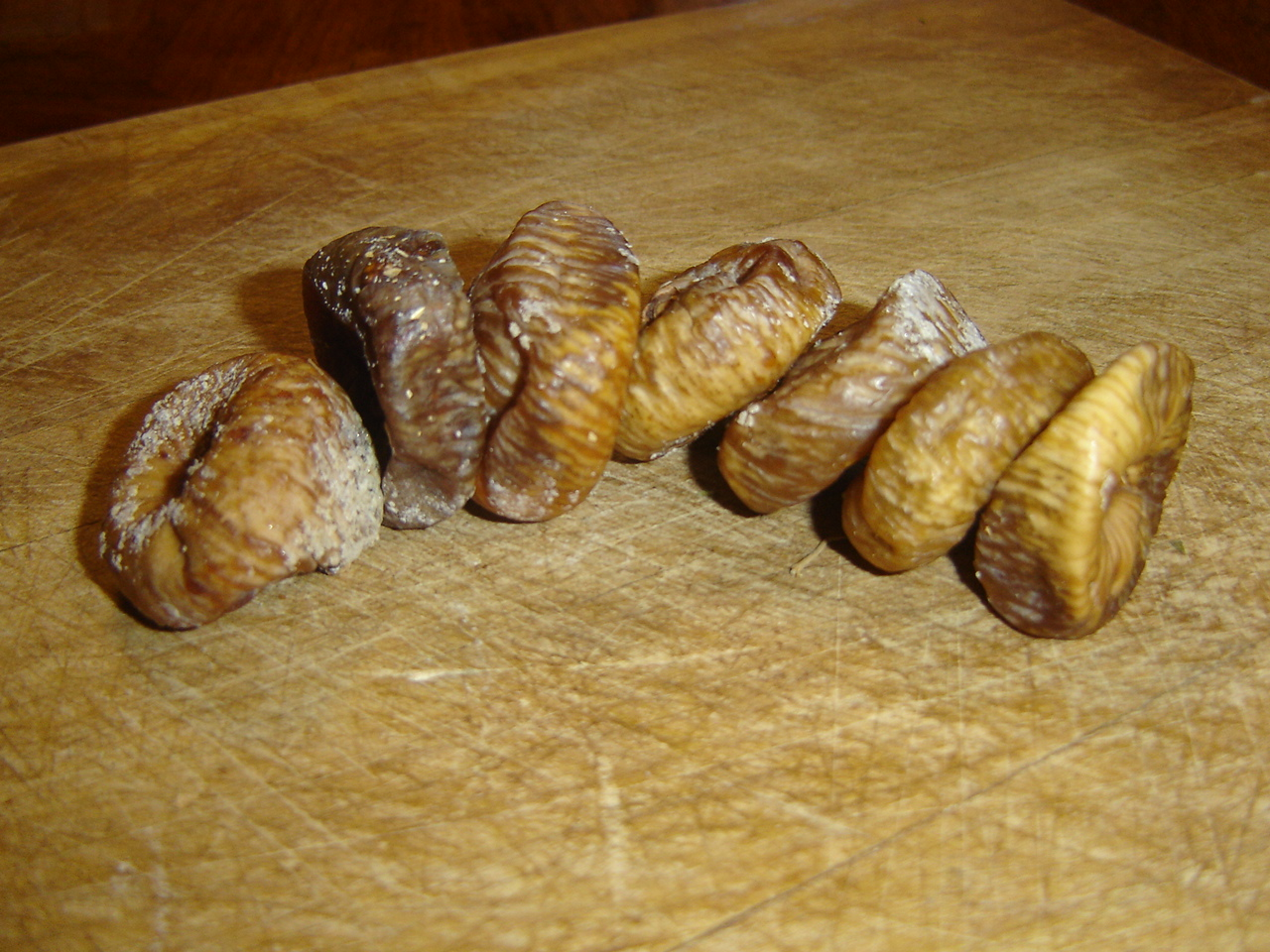 Dried Figs. Taken by Deathworm 21:35, 7 May 2007 (UTC)